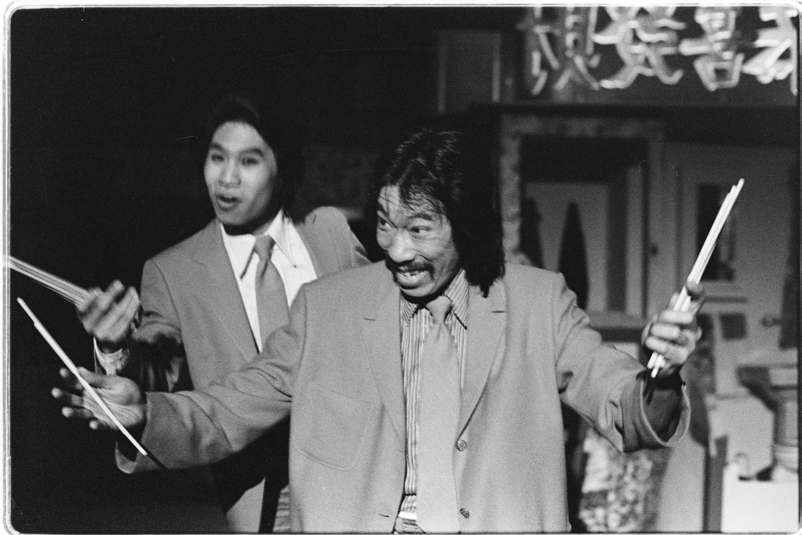 Playwright Frank Chin (right) portrays Fred Eng in "Year of the Dragon" at the Asian American Theater Workshop at California and 6th Avenue in San Francisco, 1978. Actor Mike Lee ("Johnny") is in the background Photo by Nancy Wong